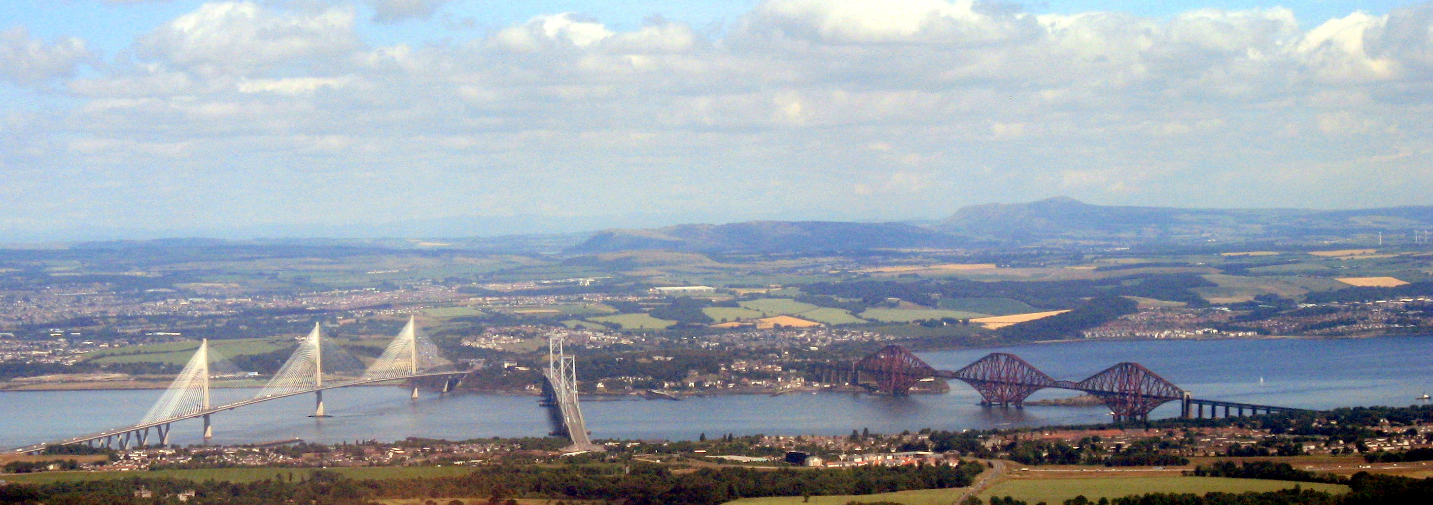 Seen just after departure from Edinburgh on Runway24. From left to right The Queensferry Crossing, the Forth Road Bridge and the Forth Bridge.